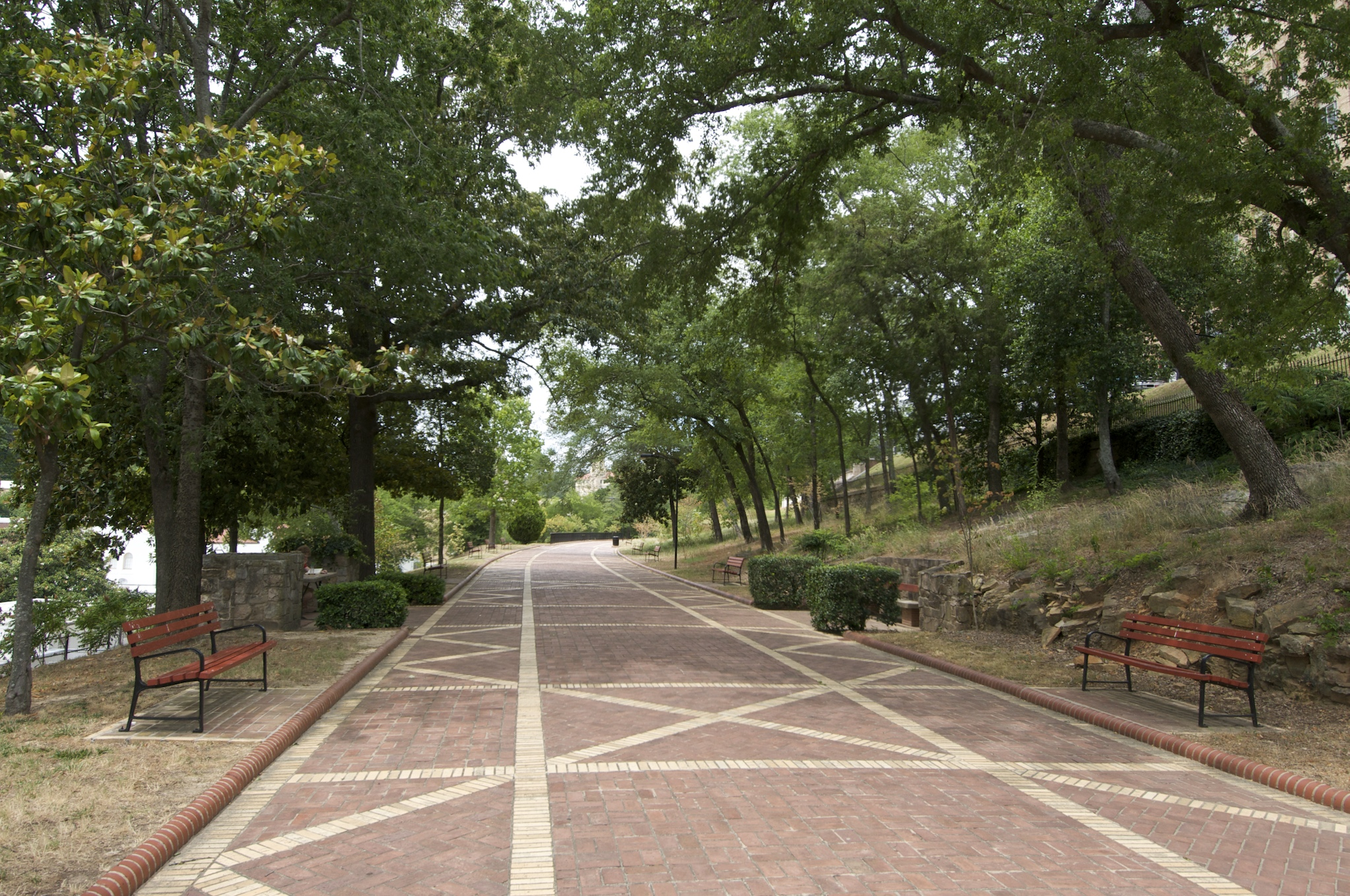 This was part of the rehabilitation regimen for visitors to Hot Springs. Folks would soak and bathe in the hot springs at a bathhouse and then spend the rest of their day walking in nature along the Grand Promenade Hot Springs National Park, Garland County, Arkansas